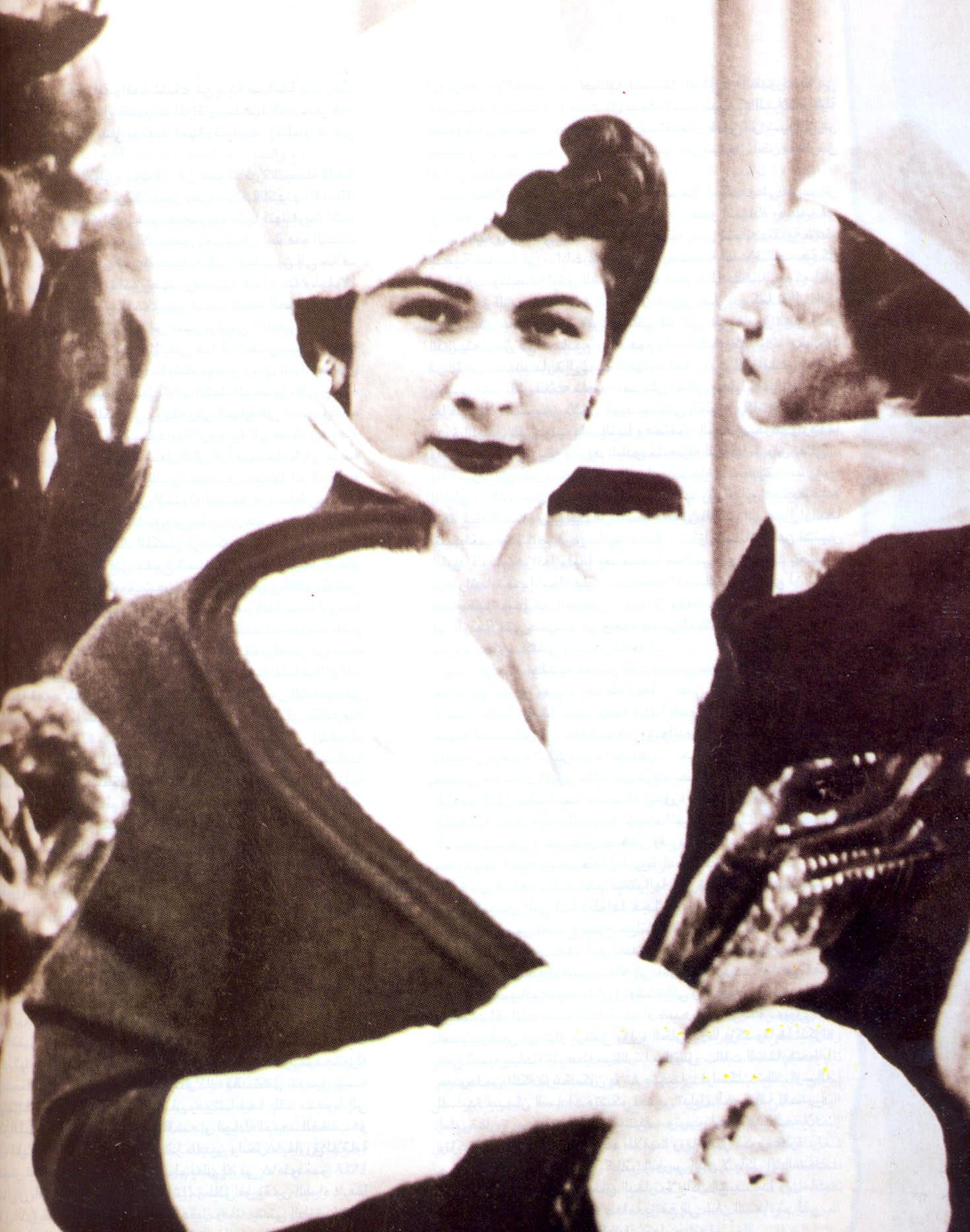 Queen Farida in her visit to the french culture center